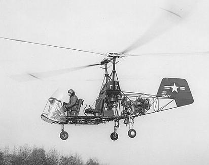 World's FIRST Turbine-Powered Helicopter. Date: December 10, 1951; place: Windsor Locks, Connecticut; aircraft: Kaman Model K-225; engine: Boeing Model 502; pilot: William R. Murray